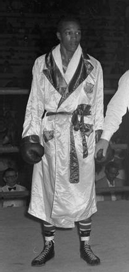 Harry Campbell at the Rome Olympics